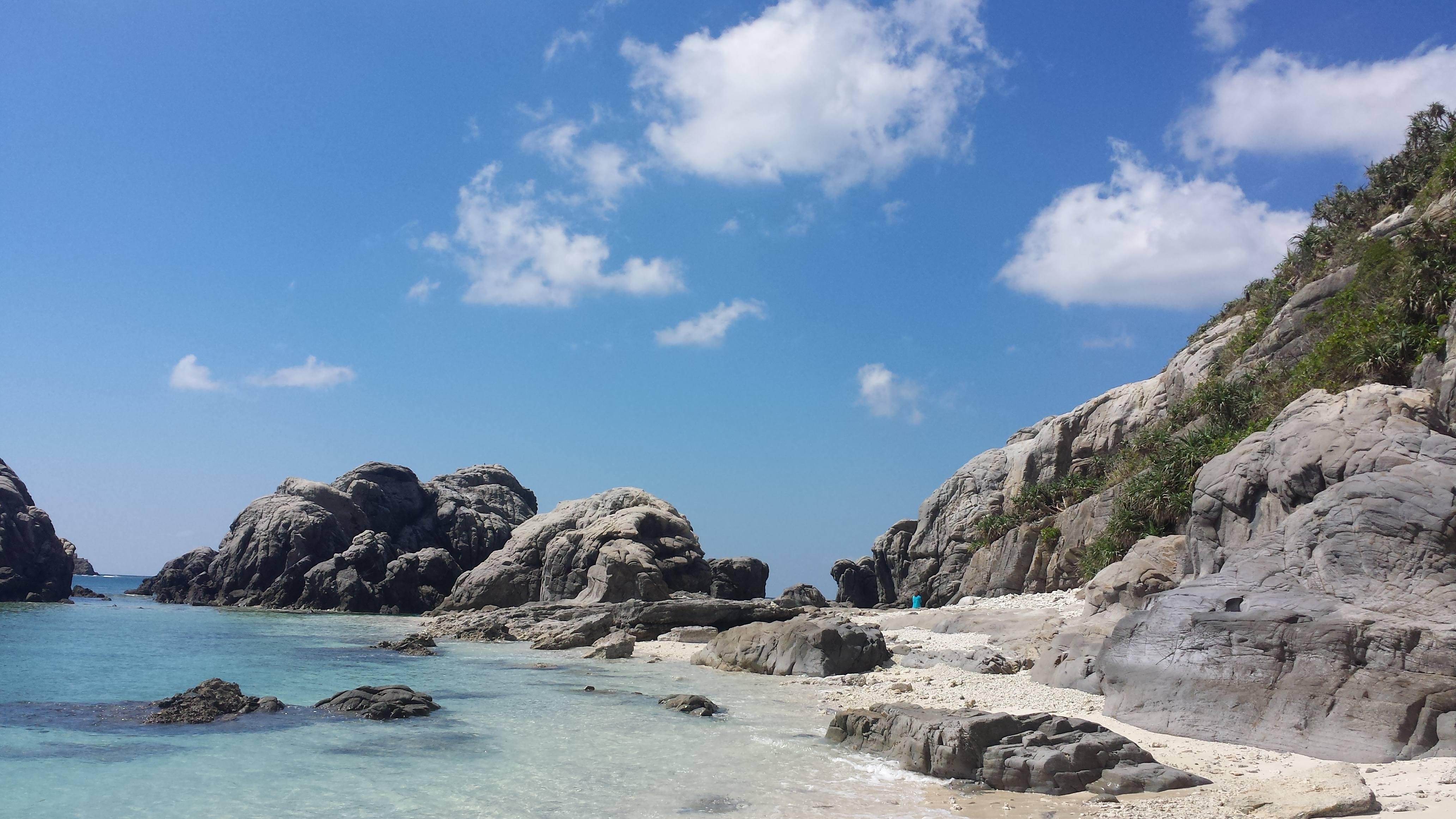 Coast of Aharen on Tokashiki Island, Okinawa, Japan. October 2015.